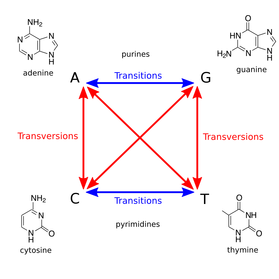 Definition of transitions and transversions